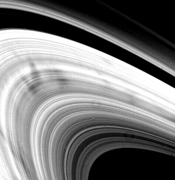 Voyager 2 obtained this high-resolution picture of Saturn's rings Aug. 22, 1981, when the spacecraft was 4 million kilometers (2.5 million miles) away. Evident here are the numerous "spoke" features, in the B-ring; their very sharp, narrow appearance suggests short formation times. Scientists think electromagnetic forces are responsible in some way for these features, but no detailed theory has been worked out. Pictures such as this and analyses of Voyager 2's spoke movies may reveal more clues about the origins of these complex structures.